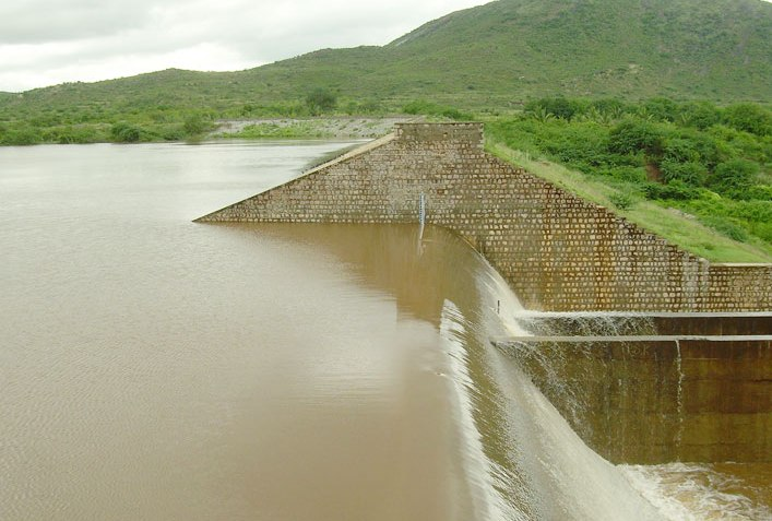 The Shanmuganathi Dam